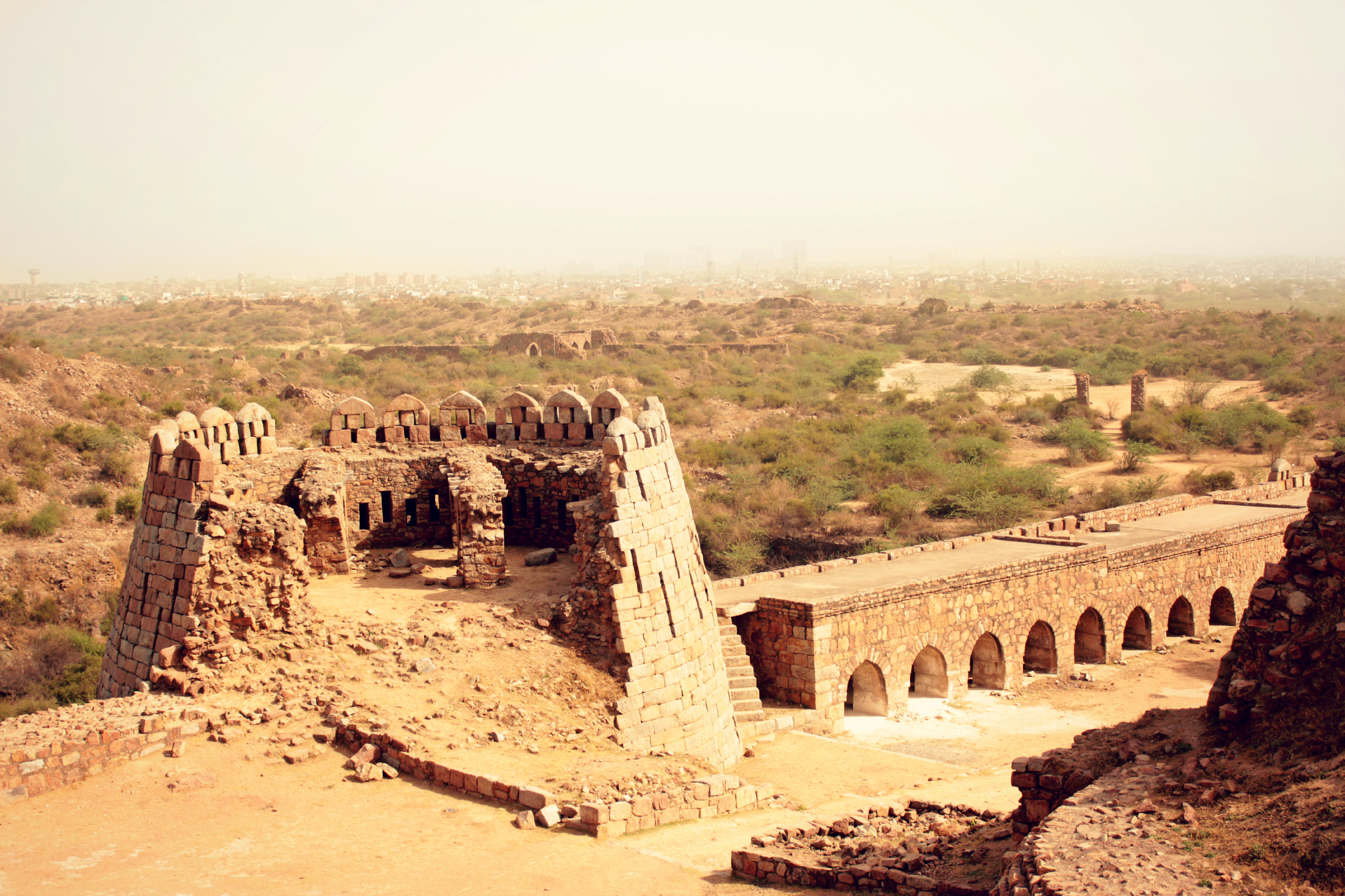 Walls, gateways bastions and internal buildings of both inner and outer citadels of Tughlaqabad Fort